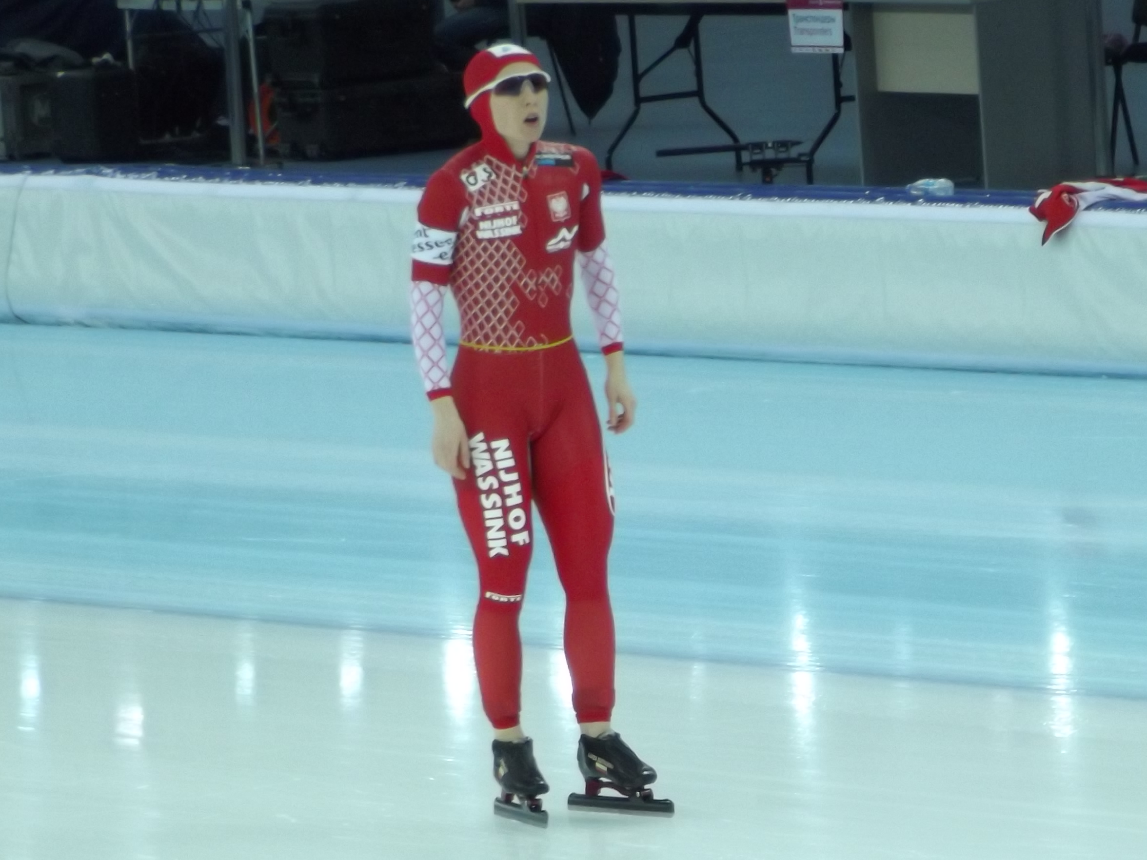 2013 World Single Distance Speed Skating Championships